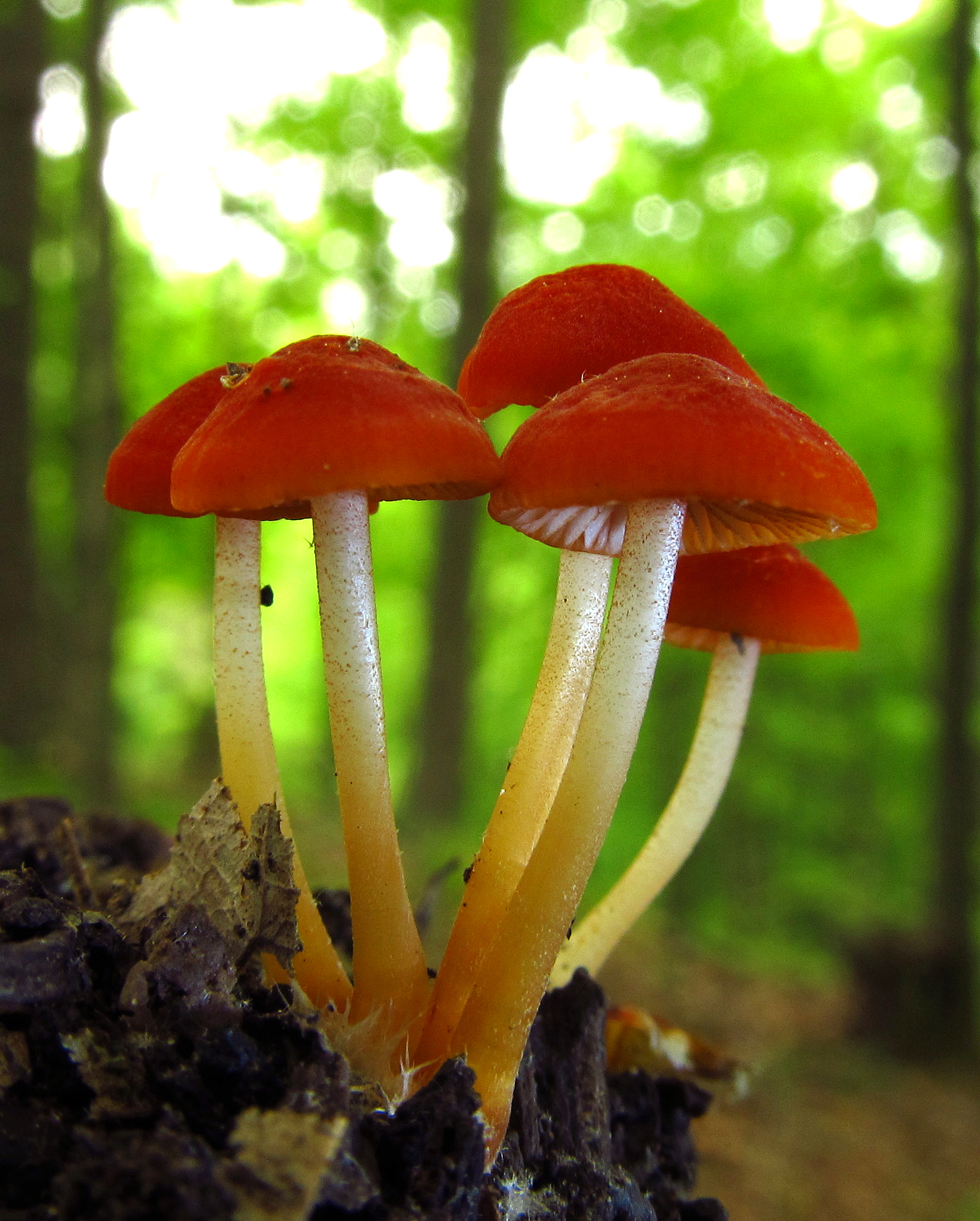 Fruit bodies of the fungus Marasmius sullivantii Mont. Specimen photographed in Liars Ridge Trail, Athens Conservancy, Athens Co., Ohio, USA.